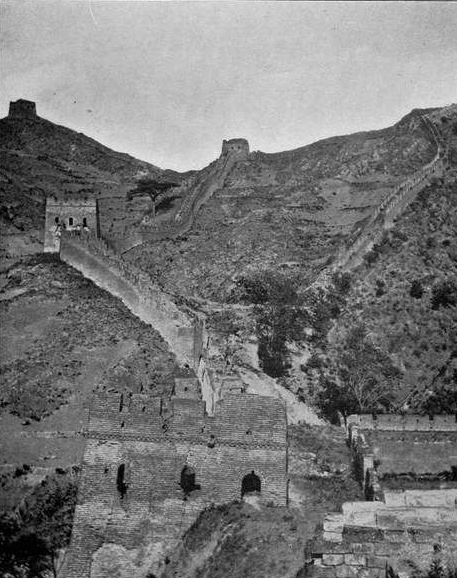 Photo published in the 1909 book The Great Wall of China (Google Books)